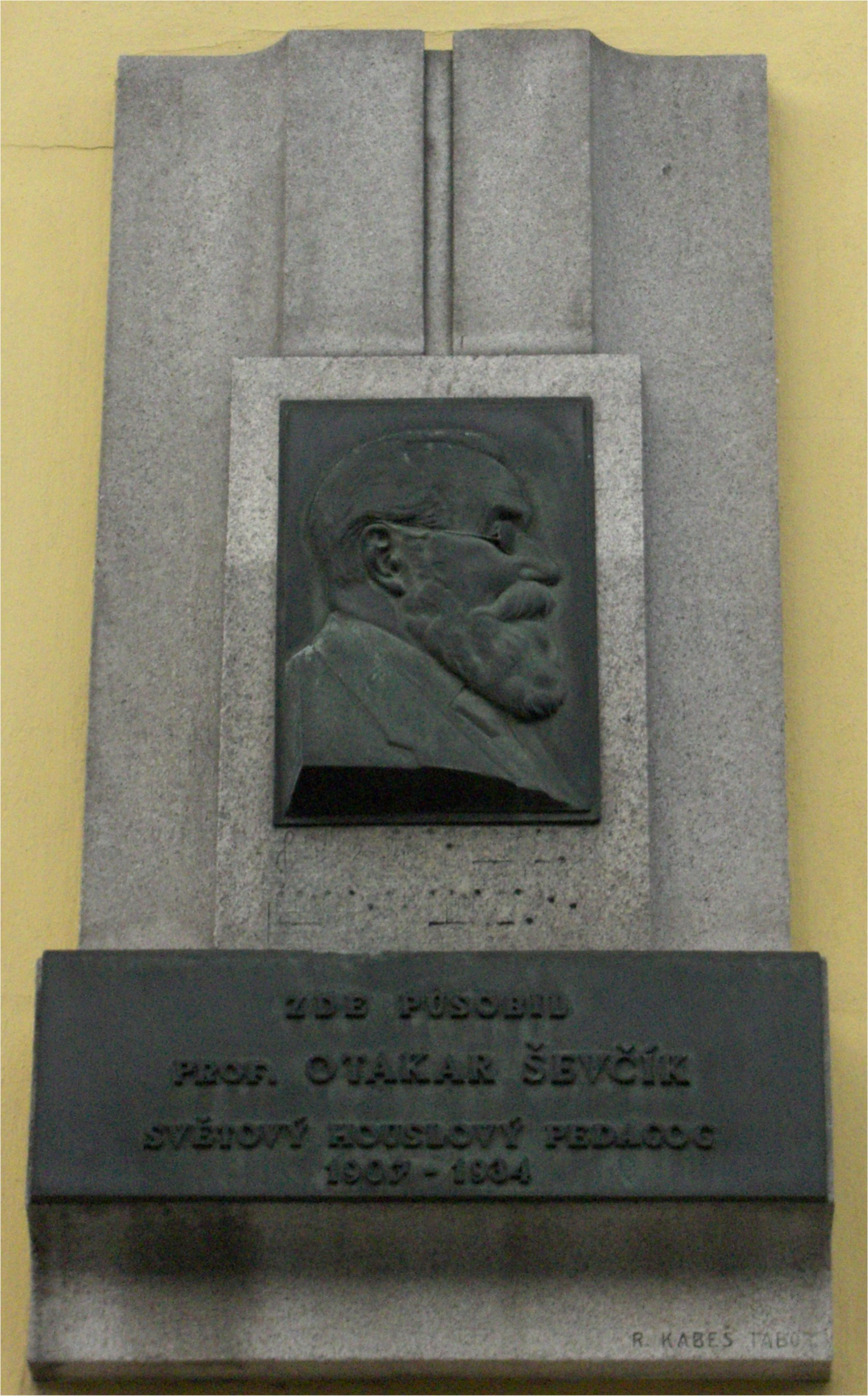 Otakar Ševčík sculpture. Písek 2007-02-18